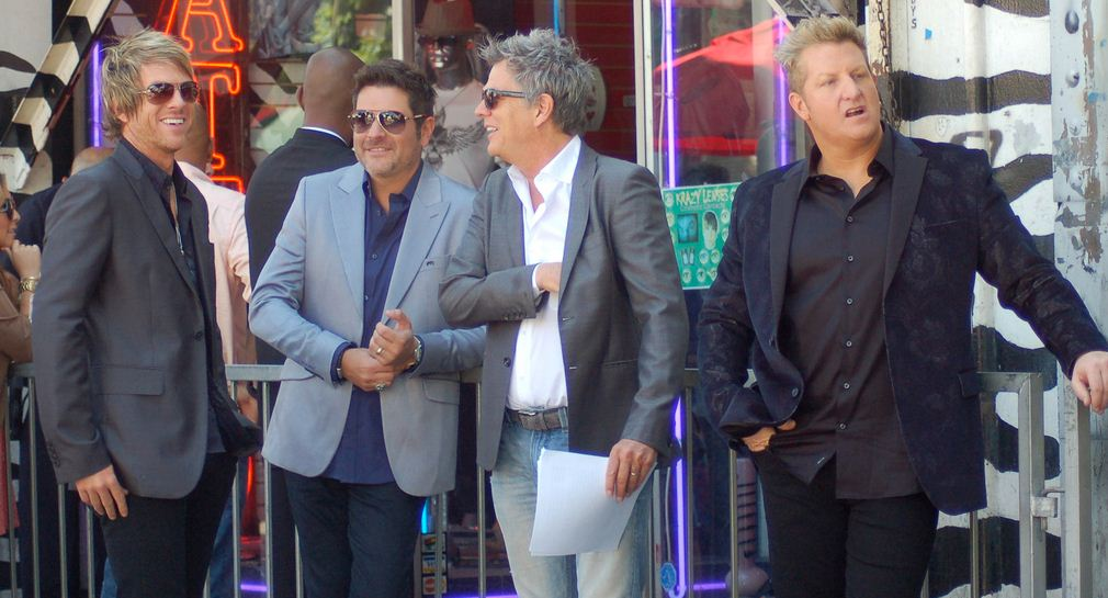 Joe Don Rooney, Jay DeMarcus, David Foster, and Gary LeVox at a ceremony for Rascal Flatts to receive a star on the Hollywood Walk of Fame.